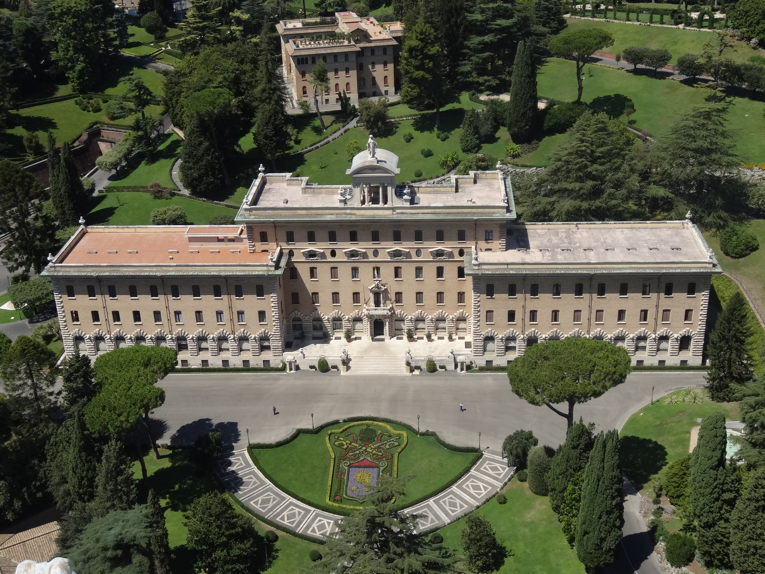 Views from the dome of Saint Peter's Basilica. August 2016. Palazzo del Governatorato